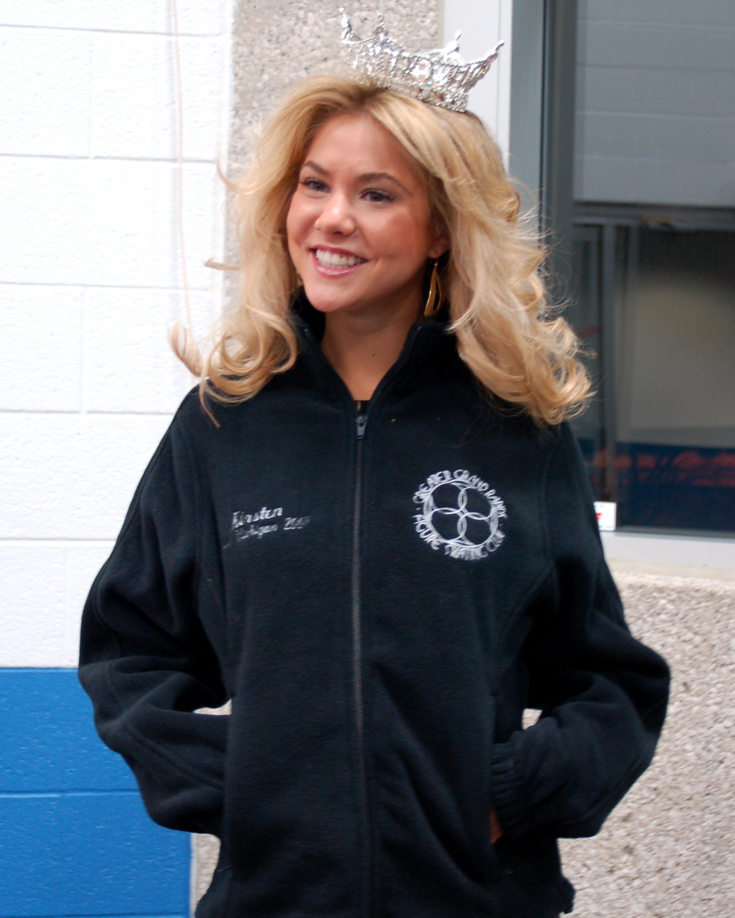 Kirsten Haglund, Miss America 2008 (photographed when she was Miss Michigan 2007